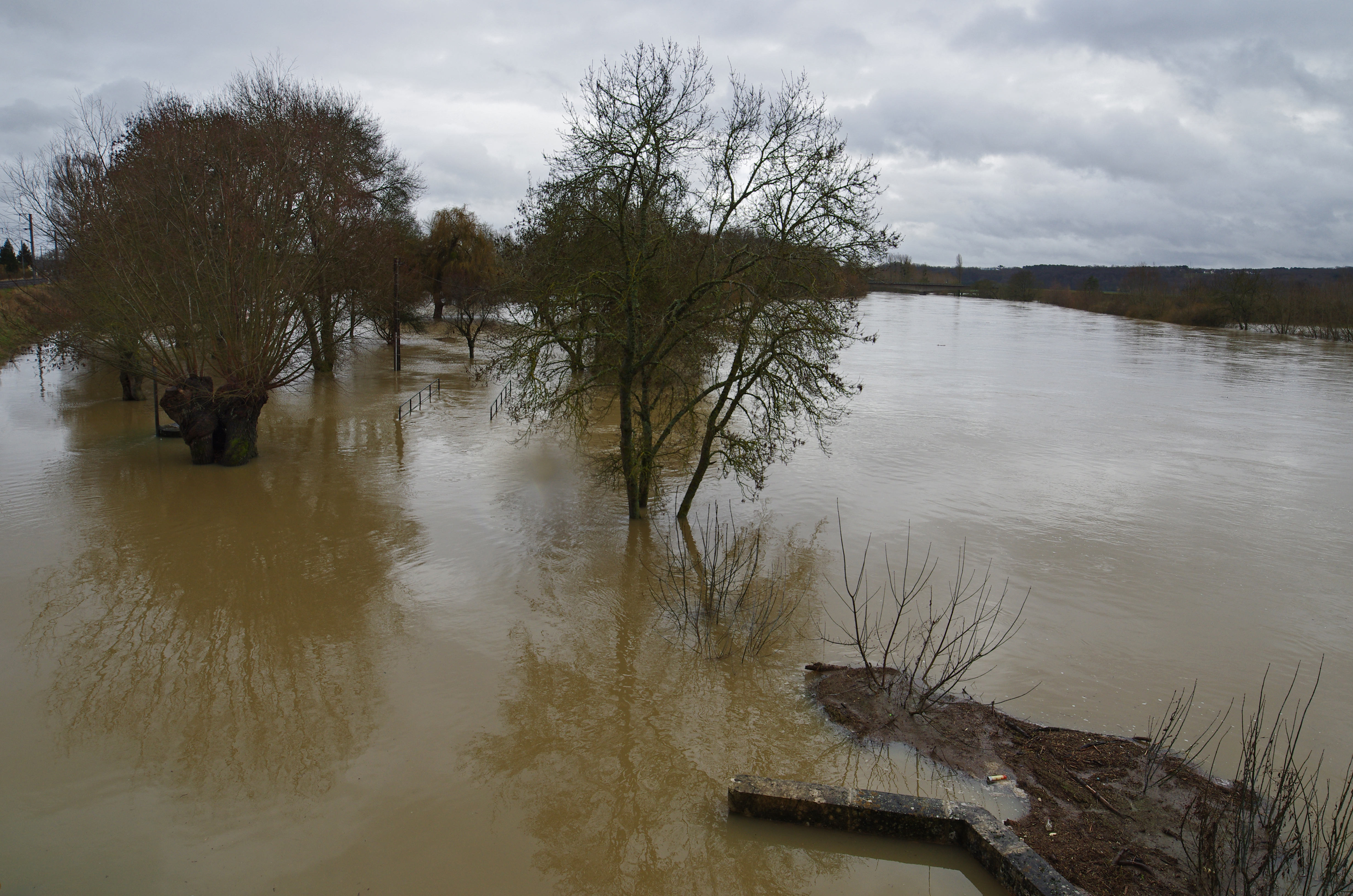 Le Cher en crue à Thésée-la-Romaine (Loir-et-Cher) en février 2013.